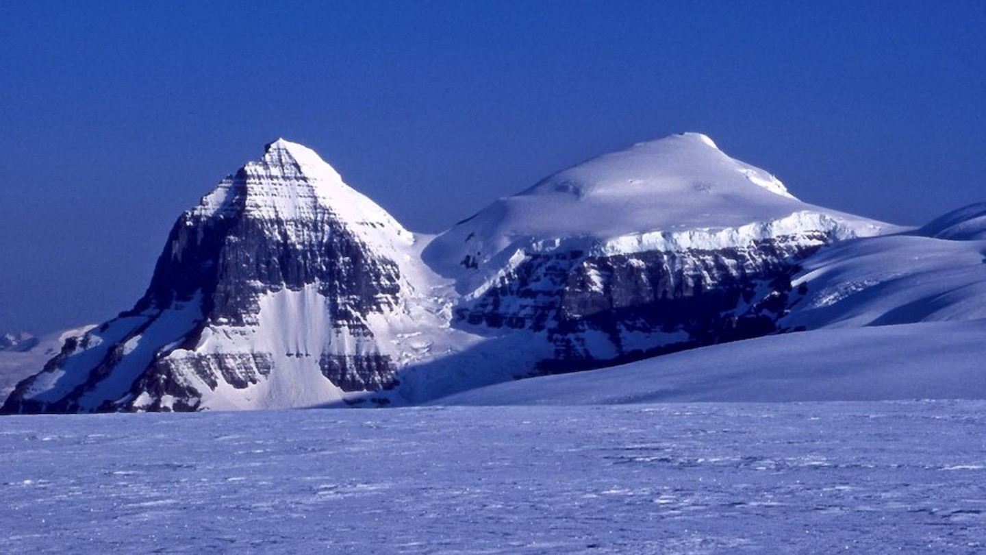 The Twins - South Twin Peak and North Twin Peak as seen from the normal approach along the Columbia Icefield, after having gone up via the Athabasca Glacier.